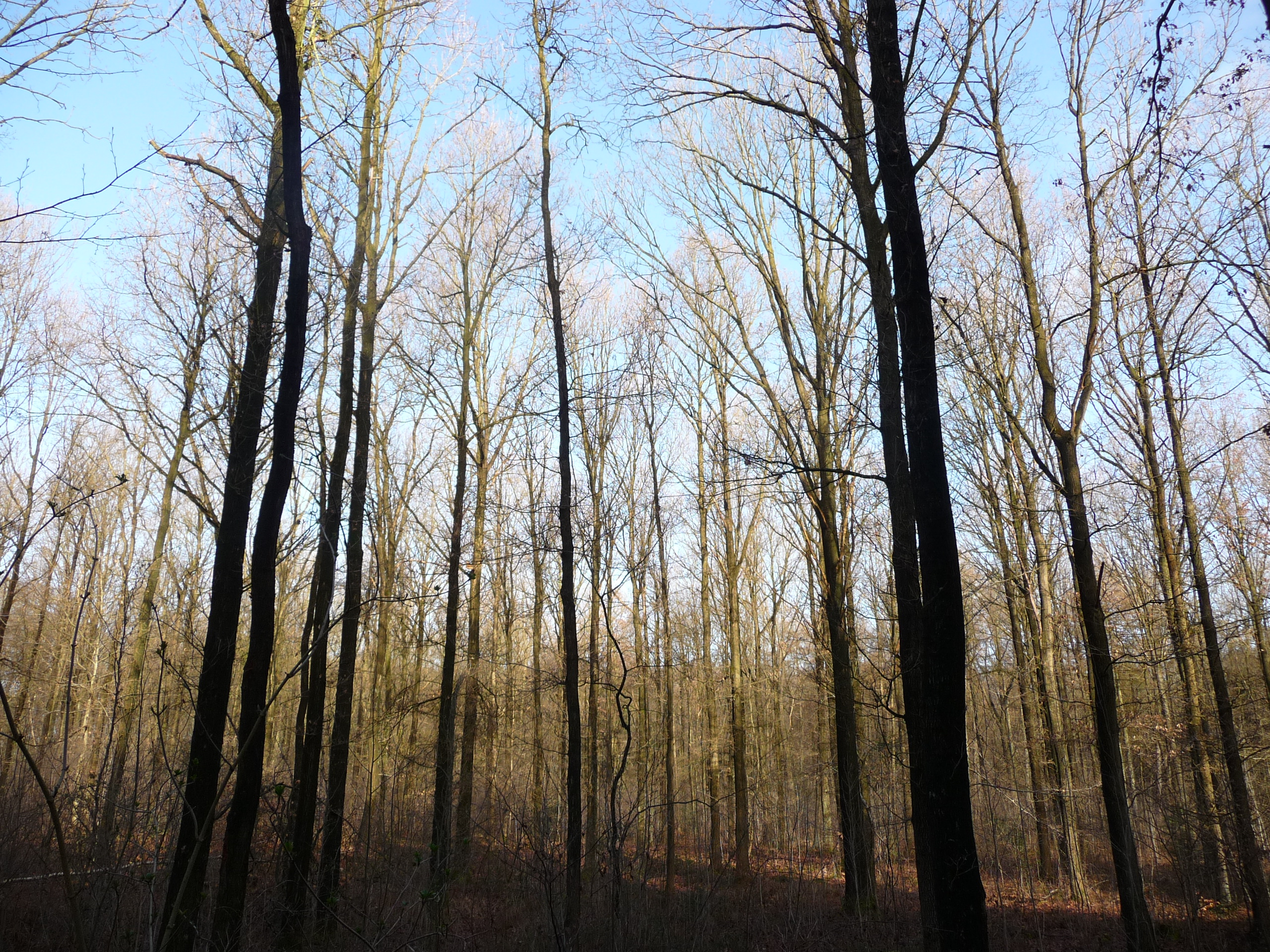 Forest in North Rhine-Westphalia, Germany